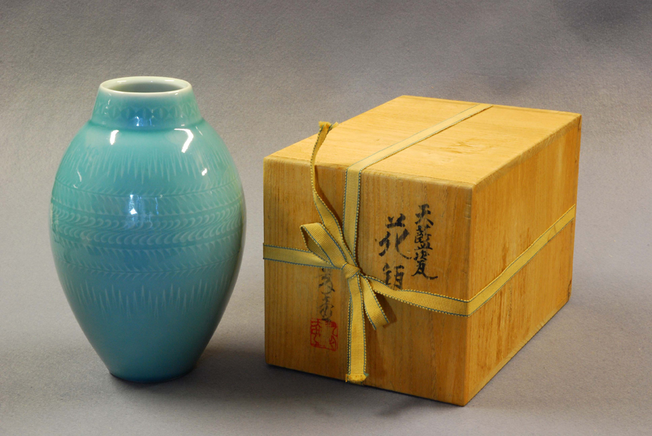 Ito Suiko, Himmelblaue Porzellanvase, um 1970-75, Kunstgewerbemuseum, Inv.-Nr. 43633, Photo Katrin Lauterbach, (c) SKD